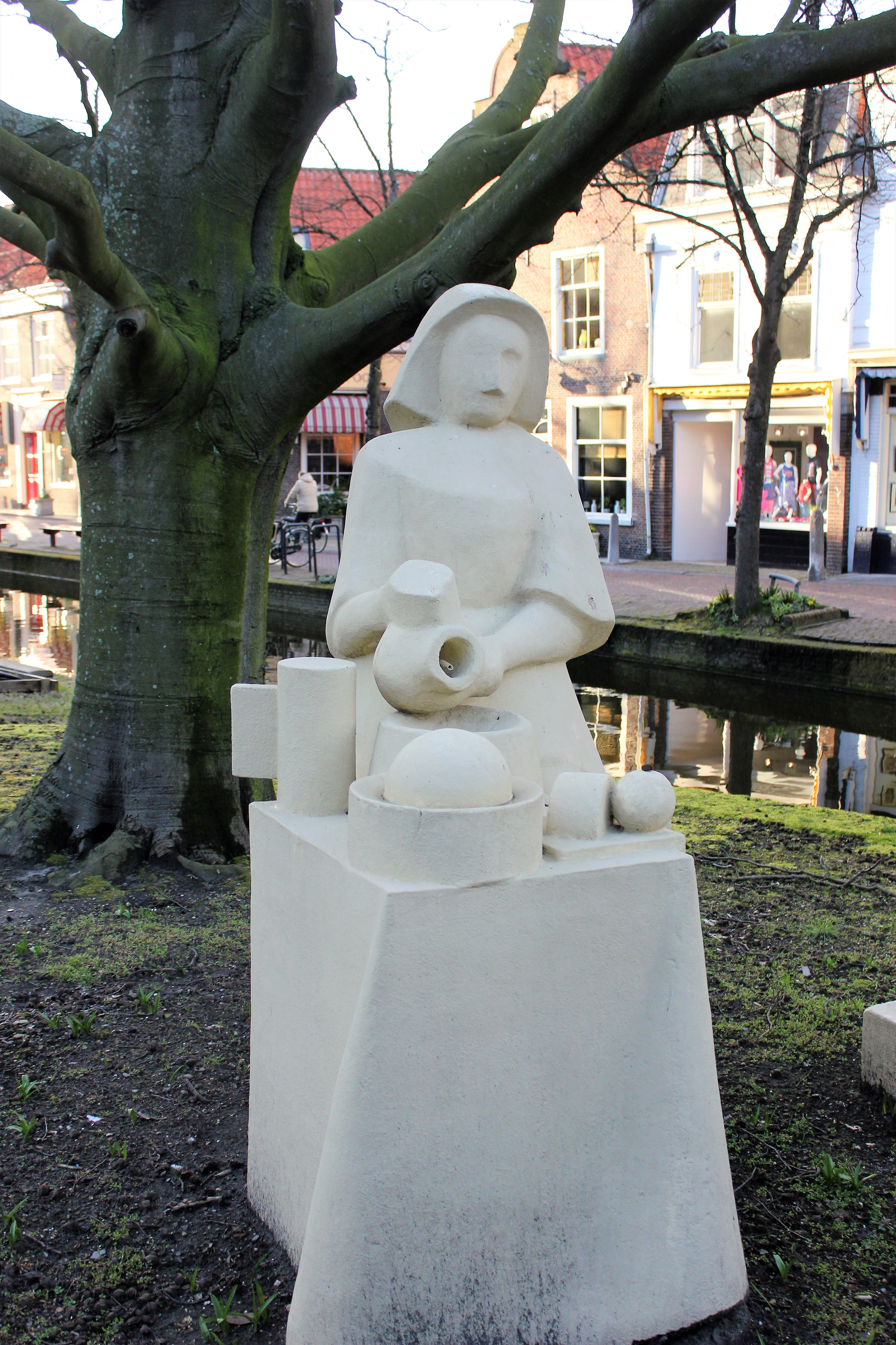 Sculpture "Het melkmeisje" by Wim T. Schippers, Delft, the Netherlands